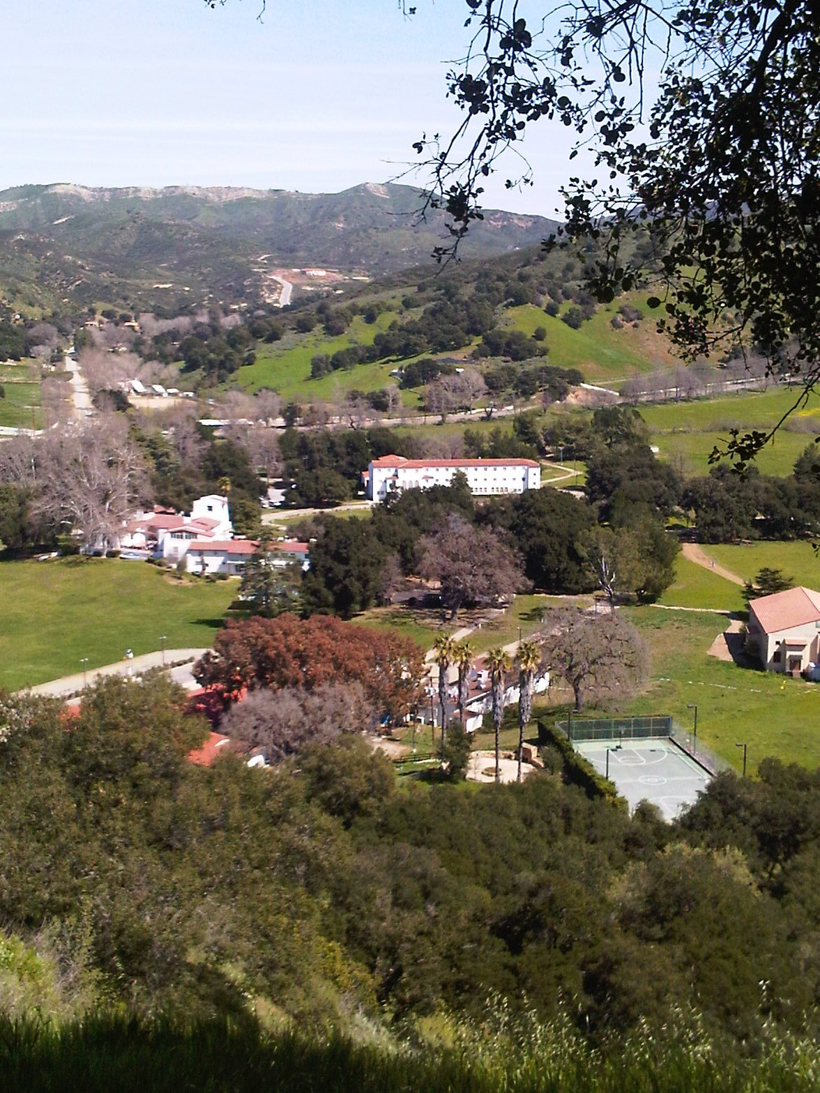 King Gillette Ranch, Santa Monica Mountains National Recreation Area, California.